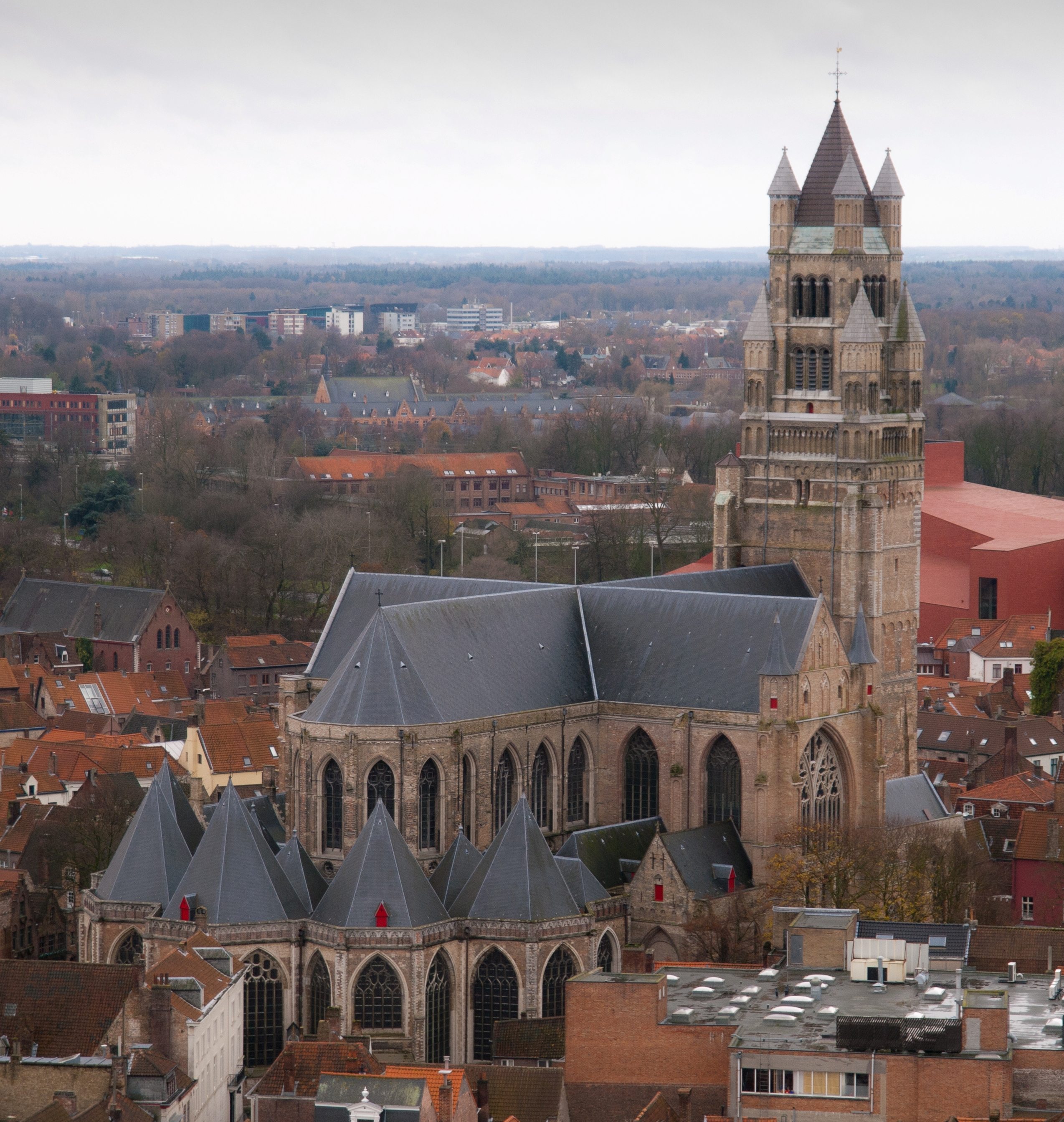 Bruges, Cathedral St. Salvator, view from the top of the Belfort Tower